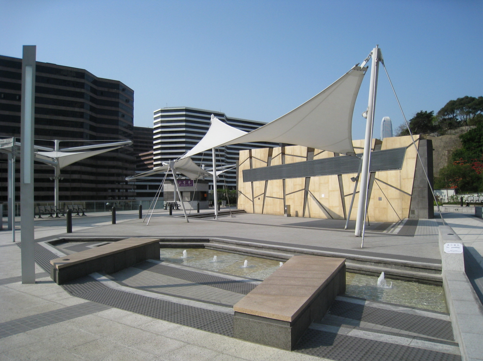 Tsim Sha Tsui East Waterfront Podium Garden 尖沙咀東海濱平台花園